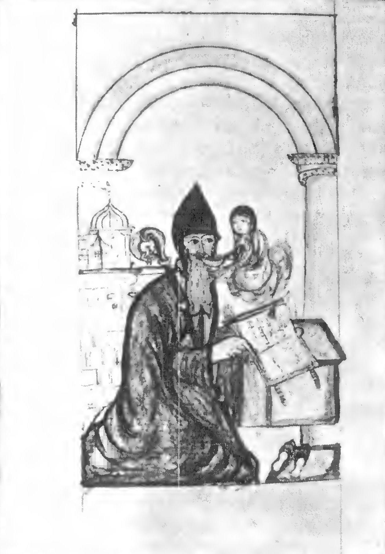 Simeon Jughayetsi (Matenadaran, No. 2341, p. 82)